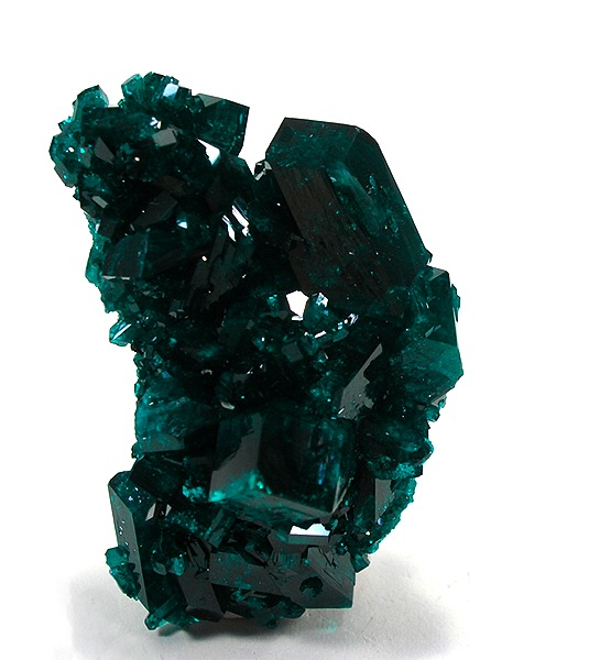 Dioptase Locality: Tsumeb, Otjikoto (Oshikoto) Region, Namibia (Locality at ) Gemmy, extremely lustrous, bright green crystals of dioptase to 2 cm make this a great miniature. Some diptase specimens are simply "green" and some GLOW with green, riveting color. This is the latter. It presents as an incredibly flashy display face, with just minor damage to secondary crystals and none to the major crystals despite their size. This specimen is highlighted by several large crystals, the largest of which, is 2 cm across, and is doubly terminated. I would say that this piece epitomizes the very best of the species in miniature size, and is a very affordable example for the quality. 5 x 2.6 x 2.6 cm